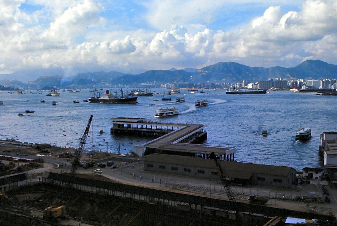 2nd generation Blake Pier in 1971 view from The Landmark Mandarin Oriental